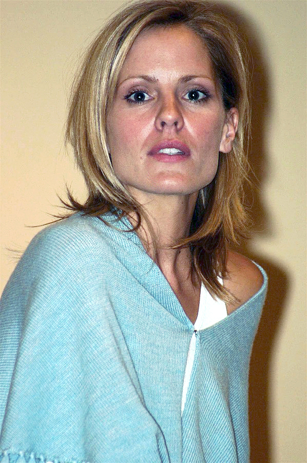 American actress Emma Caulfield at a Buffy the Vampire Slayer convention in Tampa.